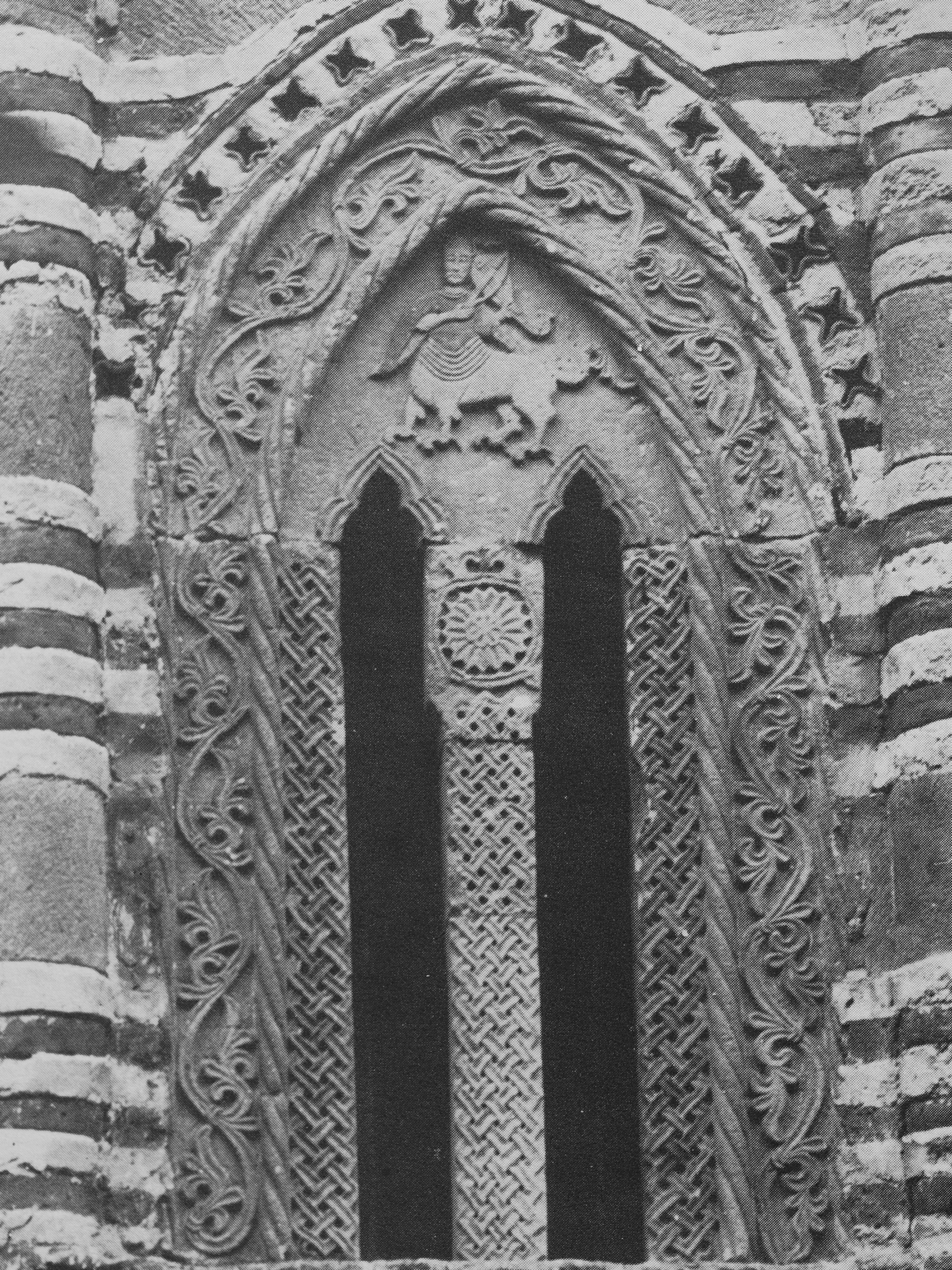 Bifora na severnoj konhi Manastira Kalenic 15 vek (serbian) centaur Chiron playing gusle